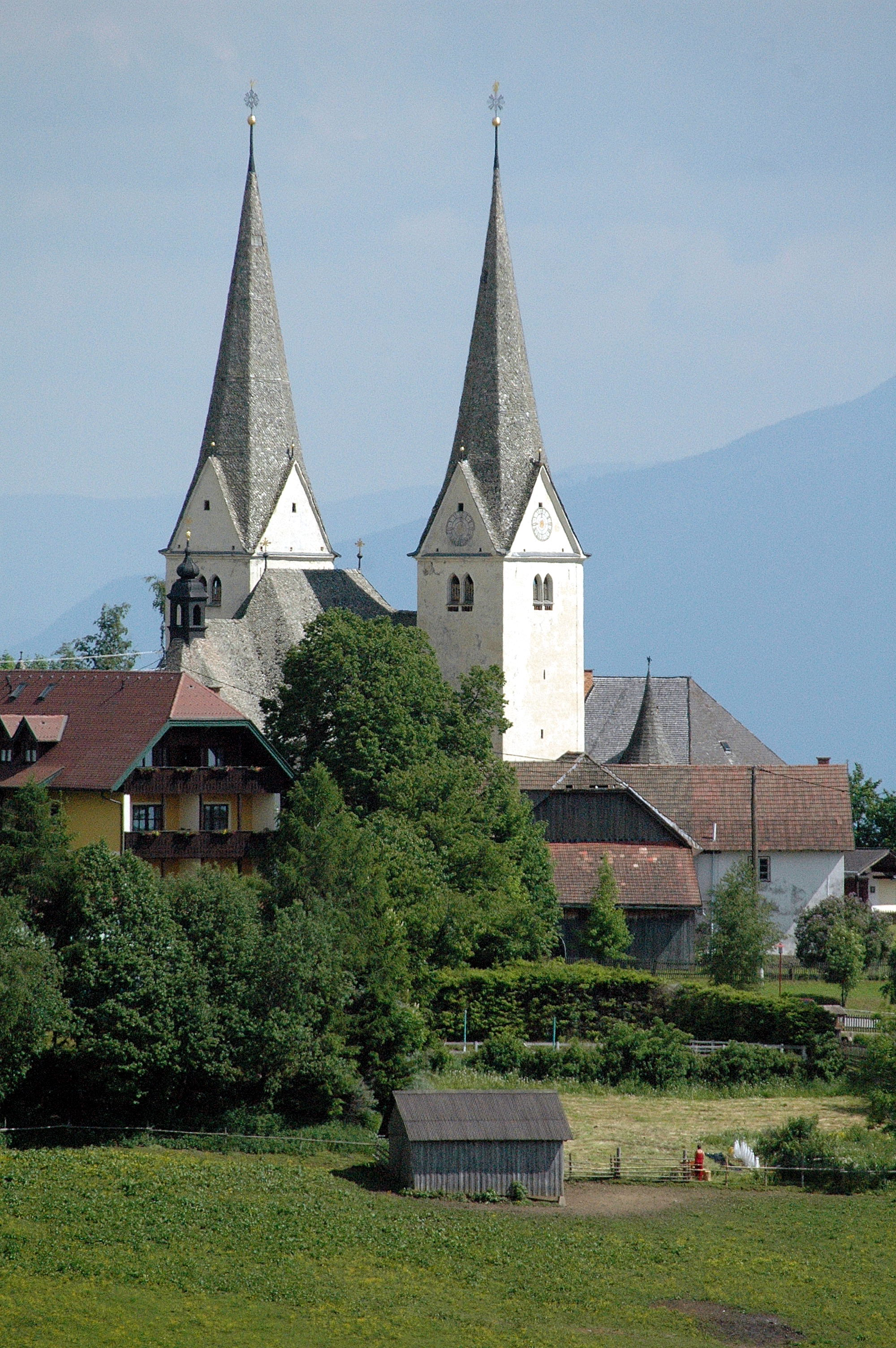 Church of Diex, Carinthia, Austria